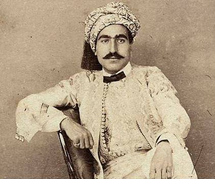 Mustafa bin Ismail biggest minister during the erection of the French protectorate over Tunisia in 1881 tried to publish a newspaper in France called "sun", after more than 130 years and the judgment of the Renaissance and accessories founded association with the same label and suggest the fact that the relationship between the sincere Bay and concubine young man who died at the age of 42 years